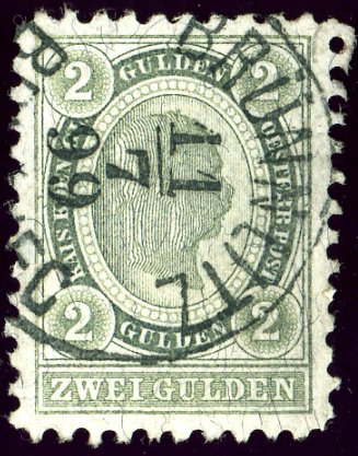 Austrian KK 2 gulden stamp, green issue 1896, bilingual cancelled in 1899 at Brünnlitz - Brněnec, Bohemia (Czech Republic)